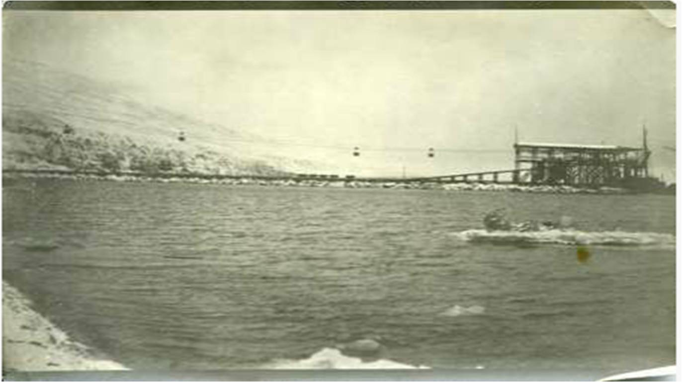 Image from the Svalbard Museum collection. Image of the coal berth in Adventfjorden, dated by the Museum to be 1905 - 1920. Author unknown.